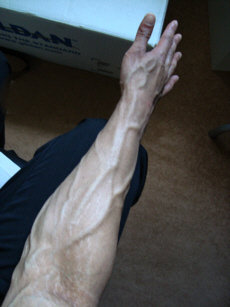 example of vascularity in a male bodybuilder